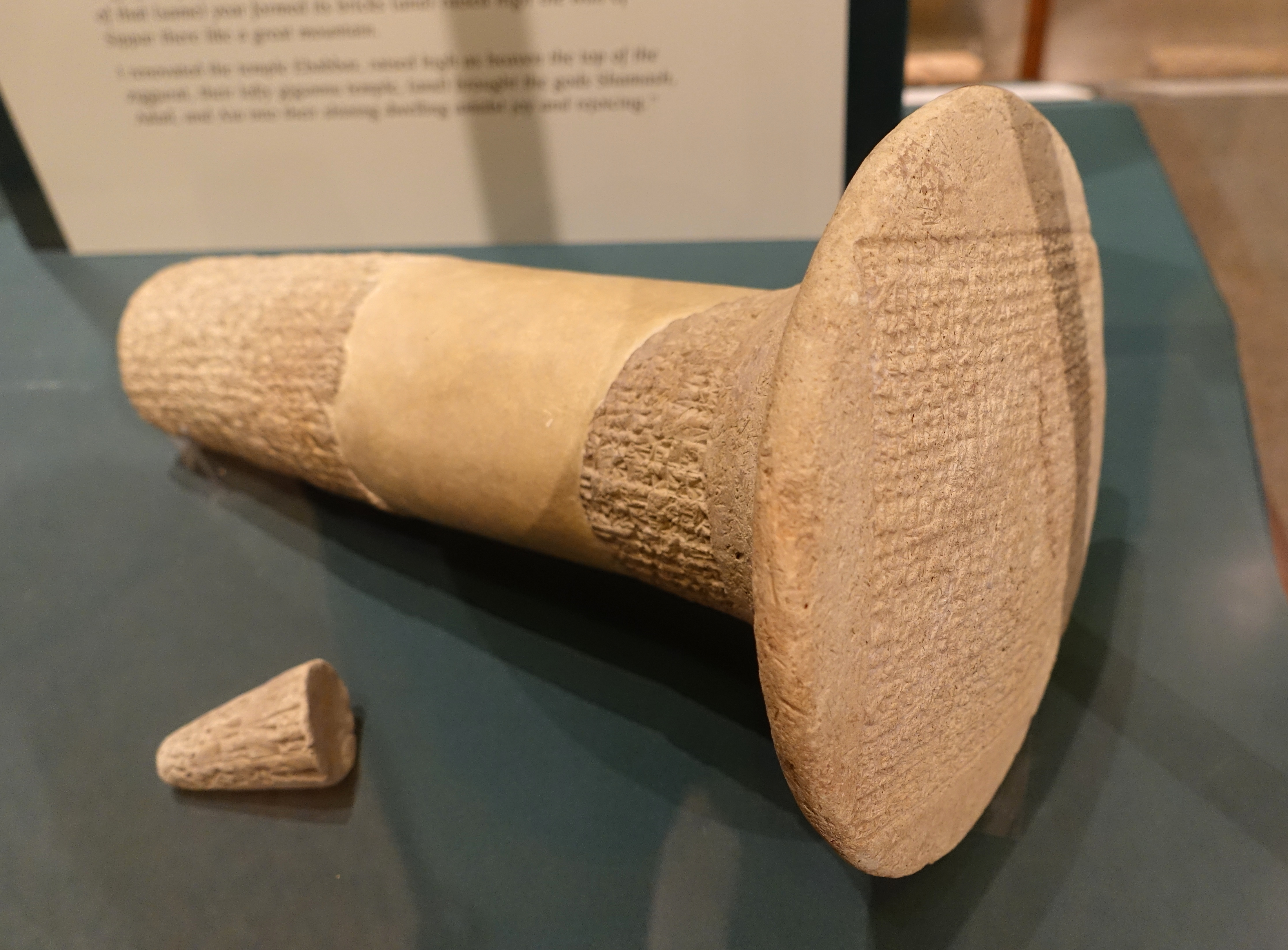 Exhibit in the Oriental Institute Museum, University of Chicago, Chicago, Illinois, USA. This work is old enough so that it is in the public domain. Translation: "...from the time when the brickwork of the temple Ebabbar was (first) constructed, (since), among the earlier kings, the sungod Shamash favored none of them (and consequently) no one built the wall of Sippar for him, / I, Samsuiluna, beloved of the gods Shamash and Aya, mighty king, king of Babylon, ... by the levy of the army of my land, in the course of that (same) year formed its bricks (and) raised high the wall of Sippar there like a great mountain. / I renovated the temple Ebabbar, raised high as heaven the top of the ziggurat, their lofty gigunnu temple, (and) brought the gods Shamash, Adad, and Aia into their shining dwelling amidst joy and rejoicing."